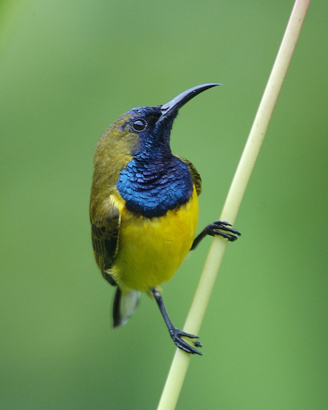 Olive-backed Sunbird (male) at Singapore Botanic Gardens photographed on 26 December 2008.